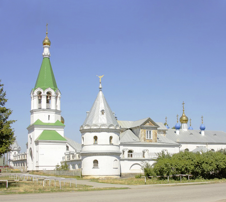 Vengerovo. Monastery.